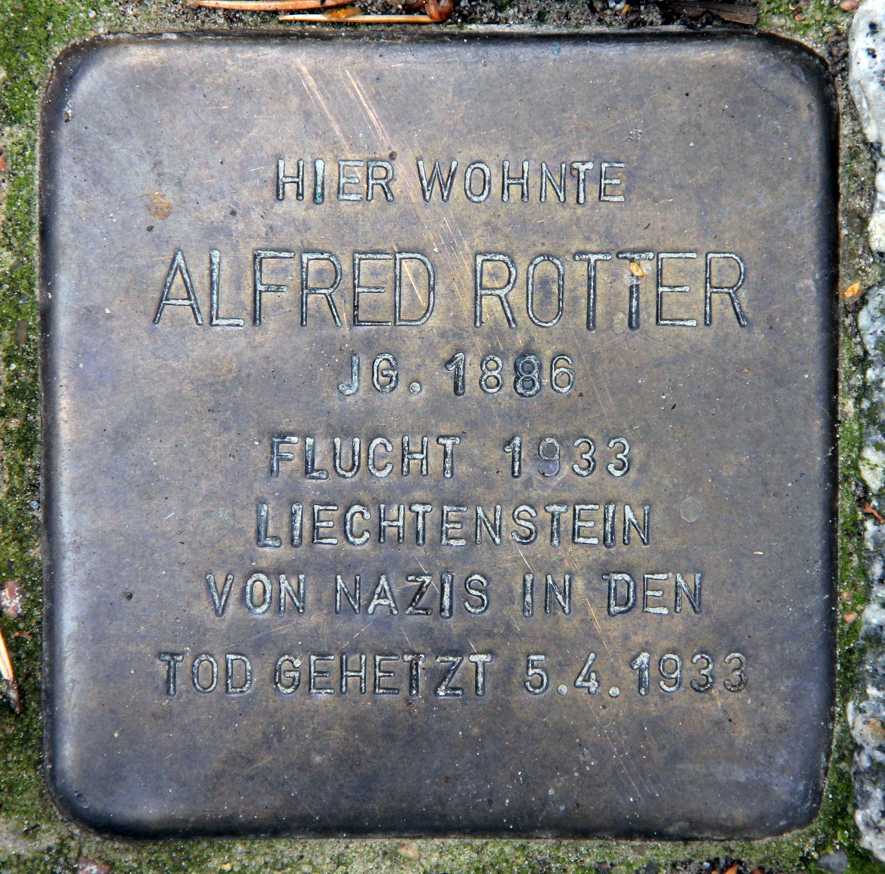 "Stolperstein" (stumbling block), Alfred Rotter, Kunz-Buntschuh-Straße 16, Berlin-Grunewald, Germany